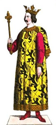 Thomas II of Piedmont